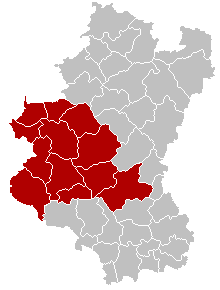 Map of Neufchâteau District in province of Luxembourg, Belgium.Colors changed by me, based on work from Gebruiker:LennartBolks/kaartenhoekje also in PD.